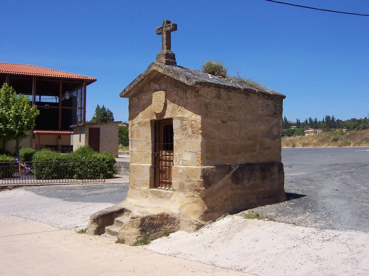 Humilladero of Briñas